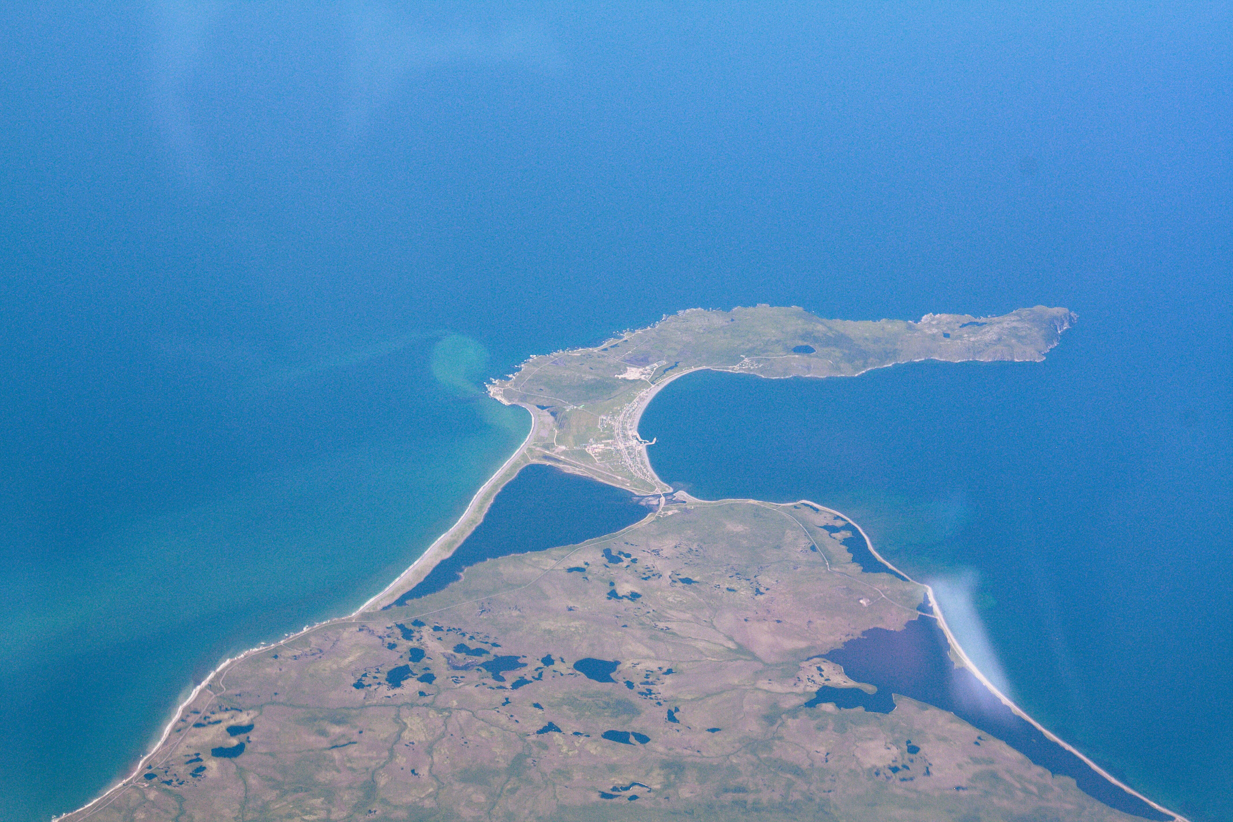 The community and small airport can be see here.